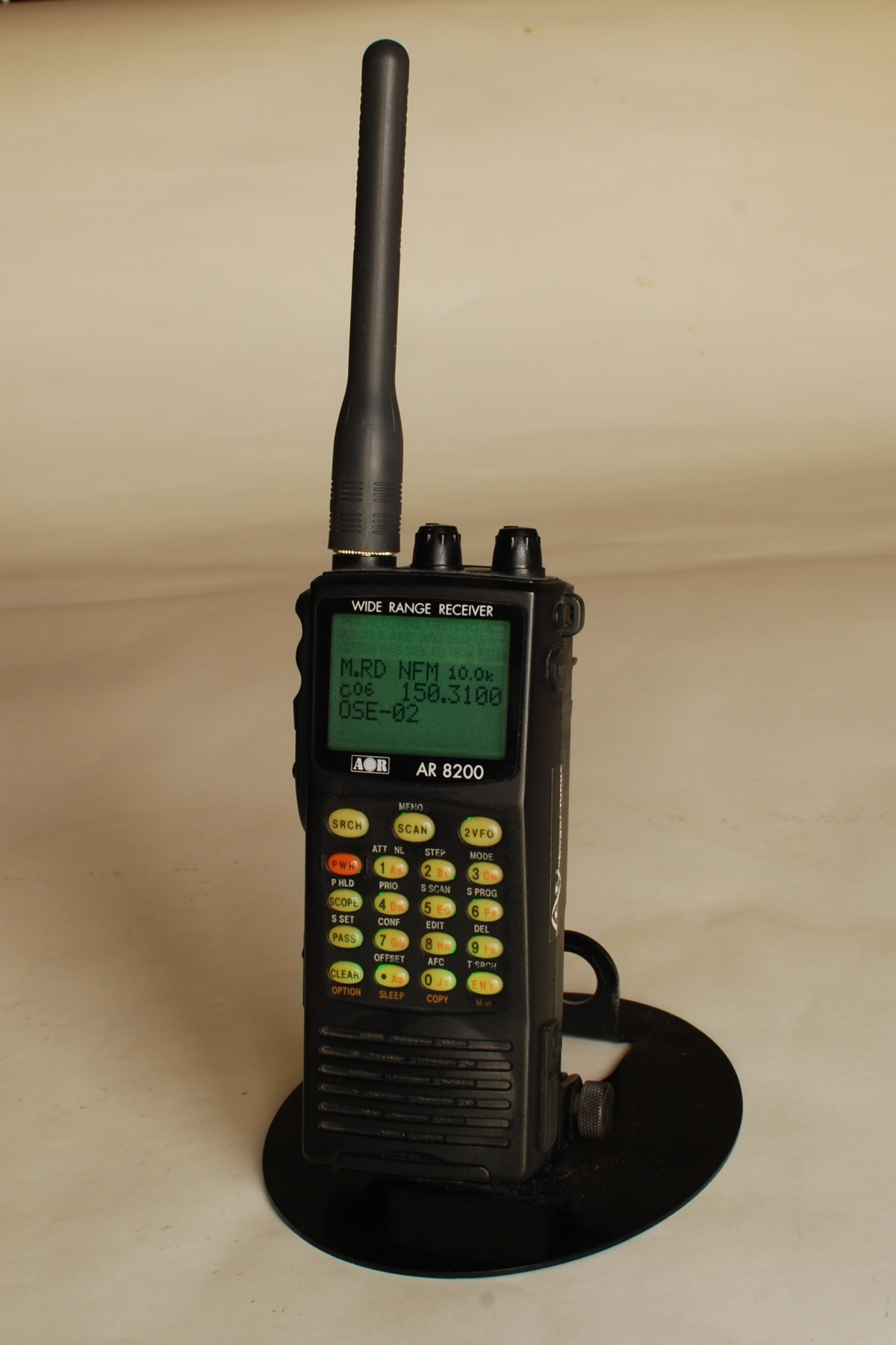 AOR AR-8200 MkII portable receiver.